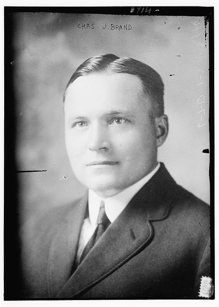 Charles J. Brand circa 1913 [no date recorded on caption card] 1 negative : glass ; 5 x 7 in. or smaller. Notes: Title from unverified data provided by the Bain News Service on the negatives or caption cards. Forms part of: George Grantham Bain Collection (Library of Congress). Format: Glass negatives. Repository: Library of Congress, Prints and Photographs Division, Washington, D.C. 20540 USA, General information about the Bain Collection is available at Persistent URL: Call Number: LC-B2- 2714-3